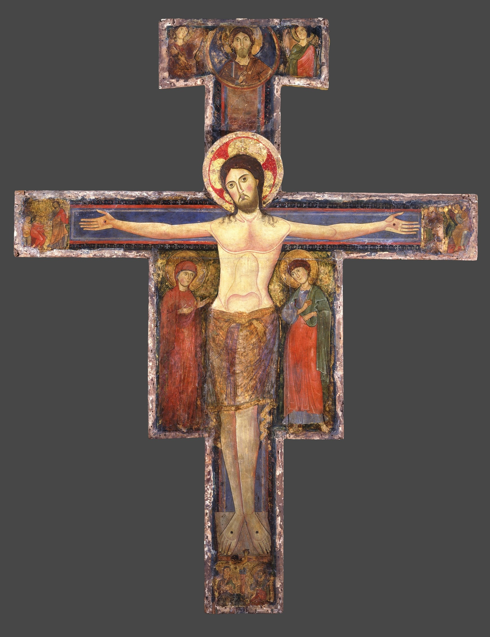 Painted cross